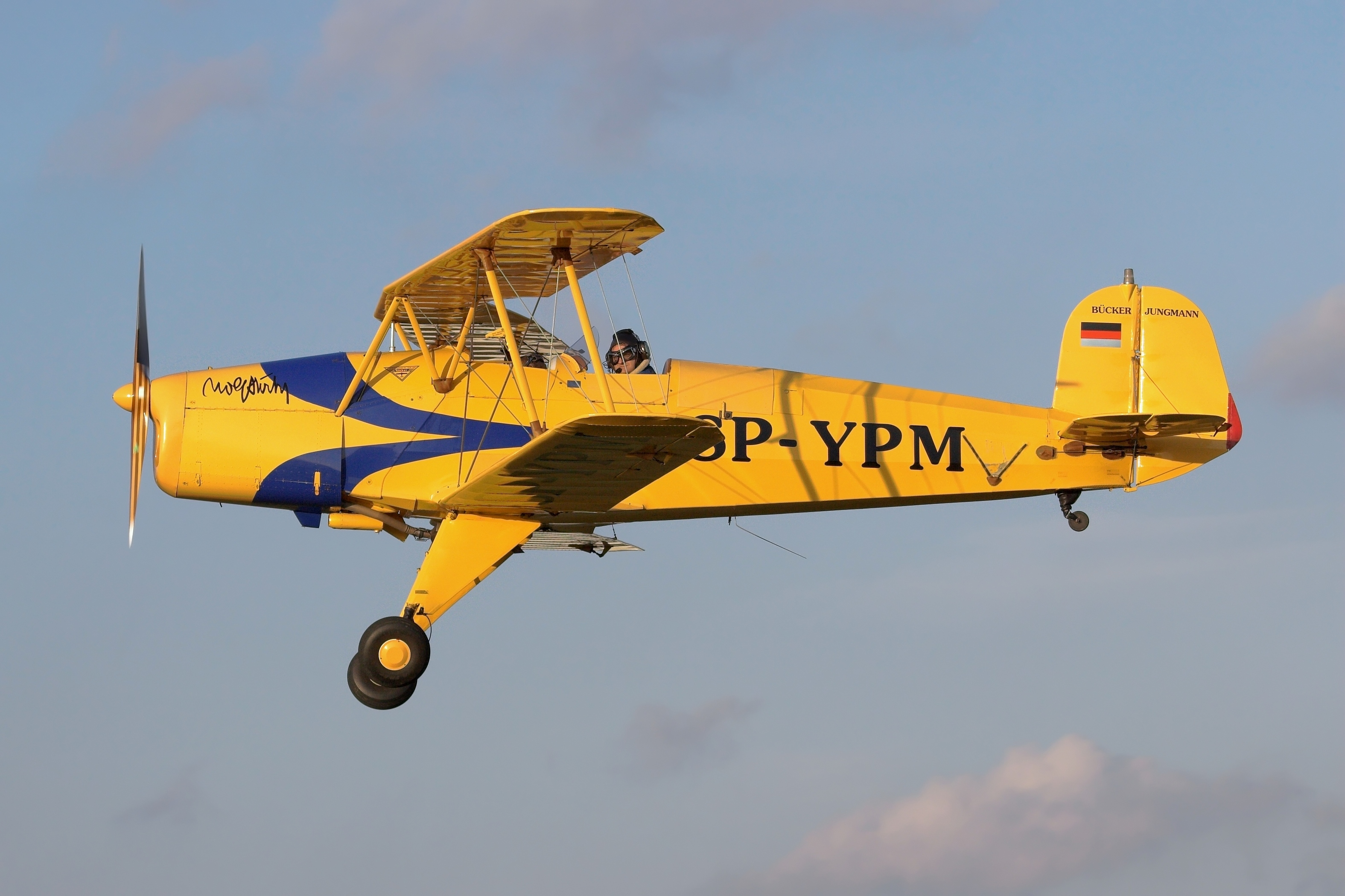 Bücker Bü 131 Jungmann